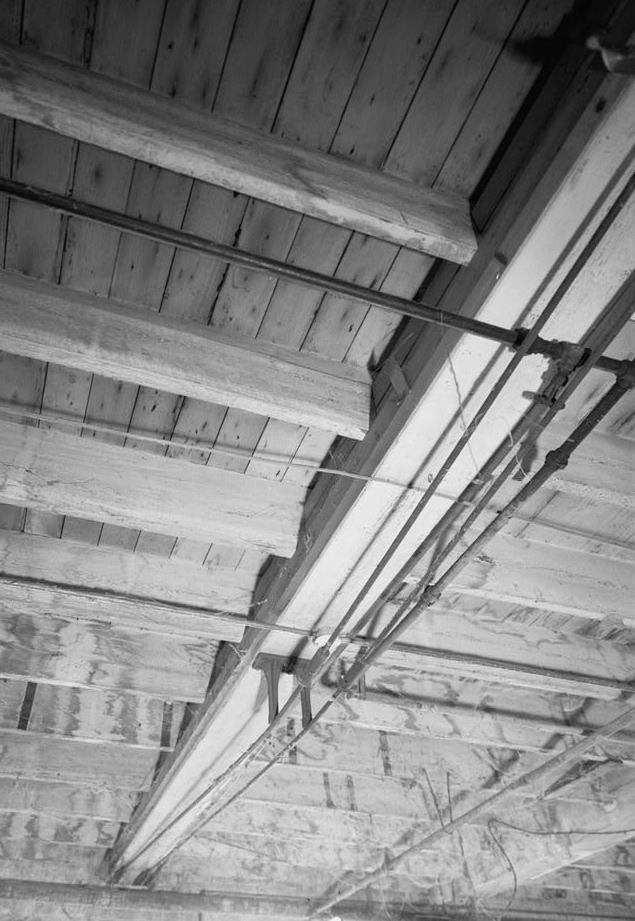 41. C. 1854 BUILDING, SECOND FLOOR, BEAM TENSIONER TRUSS. - Continental Gin Company, Prattville, Autauga County, AL